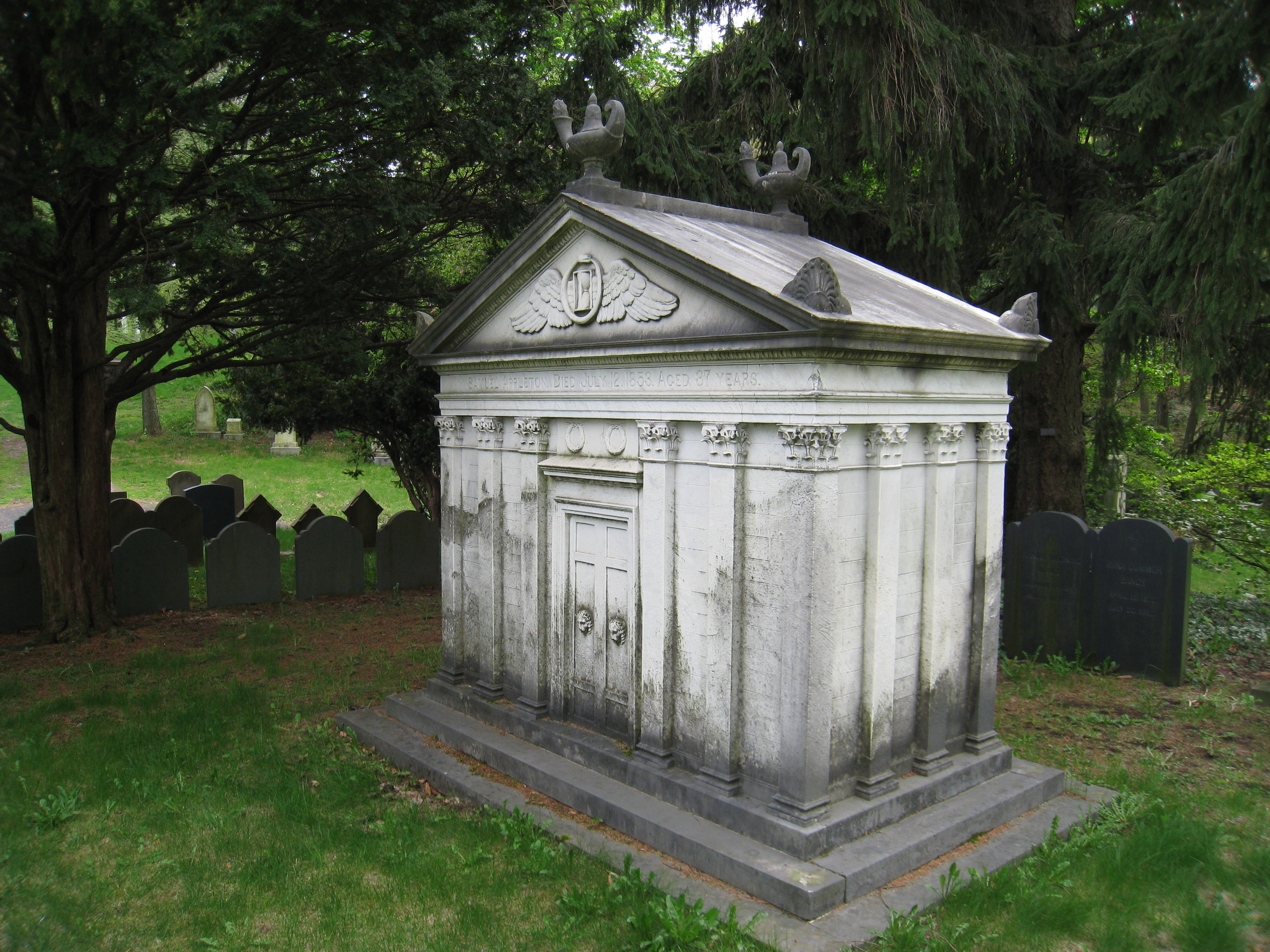 Tomb of merchant and philanthropist Samuel Appleton (1766-1853), Mount Auburn Cemetery, Cambridge, Massachusetts, USA.